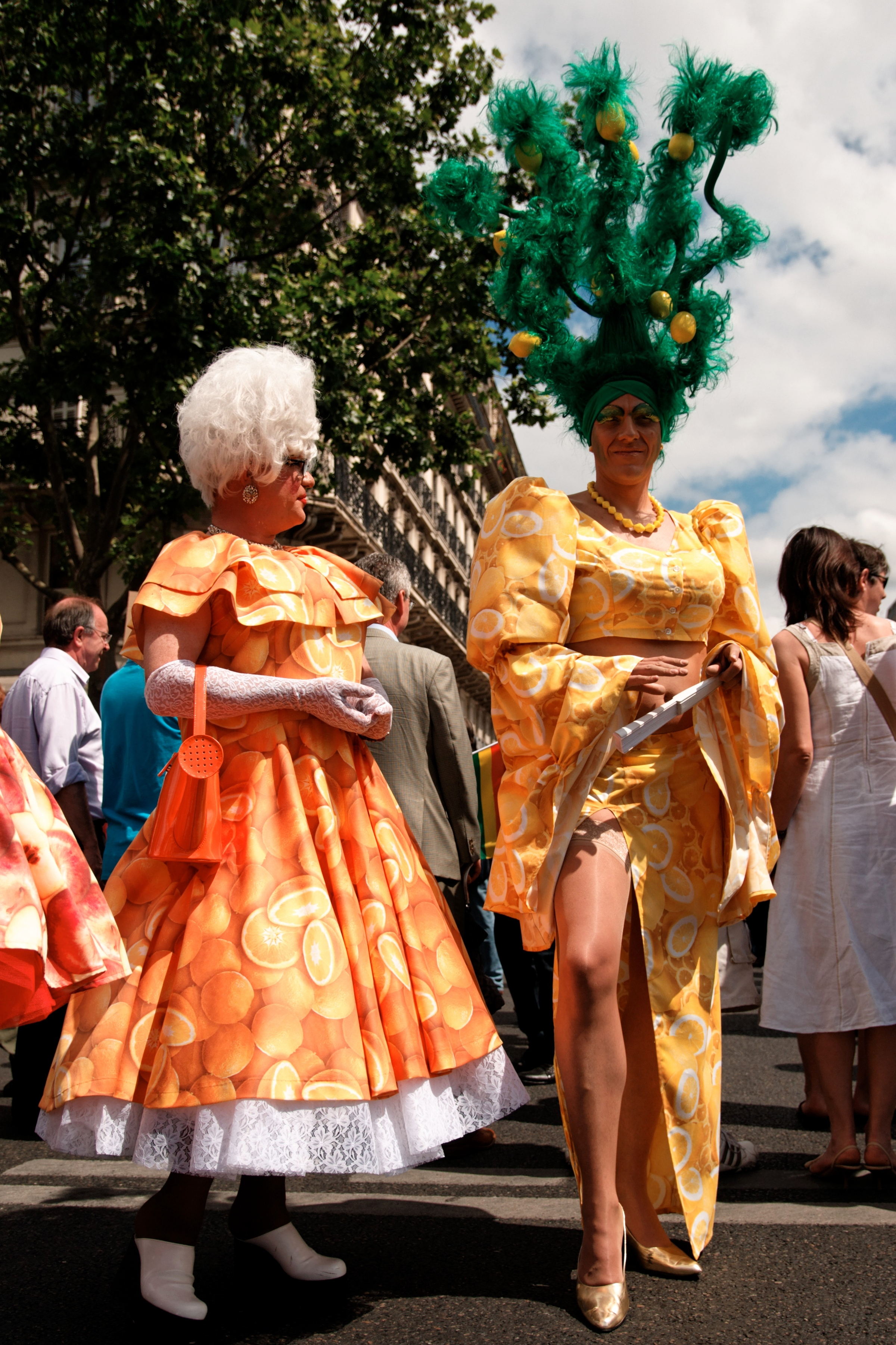 Drag queens at the 2008 Gay Pride in Paris.